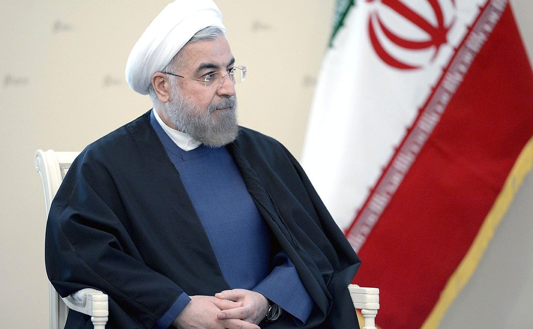 Iranian President during Caspian Sea summit in Astrakhan, Russia, 29 September 2014